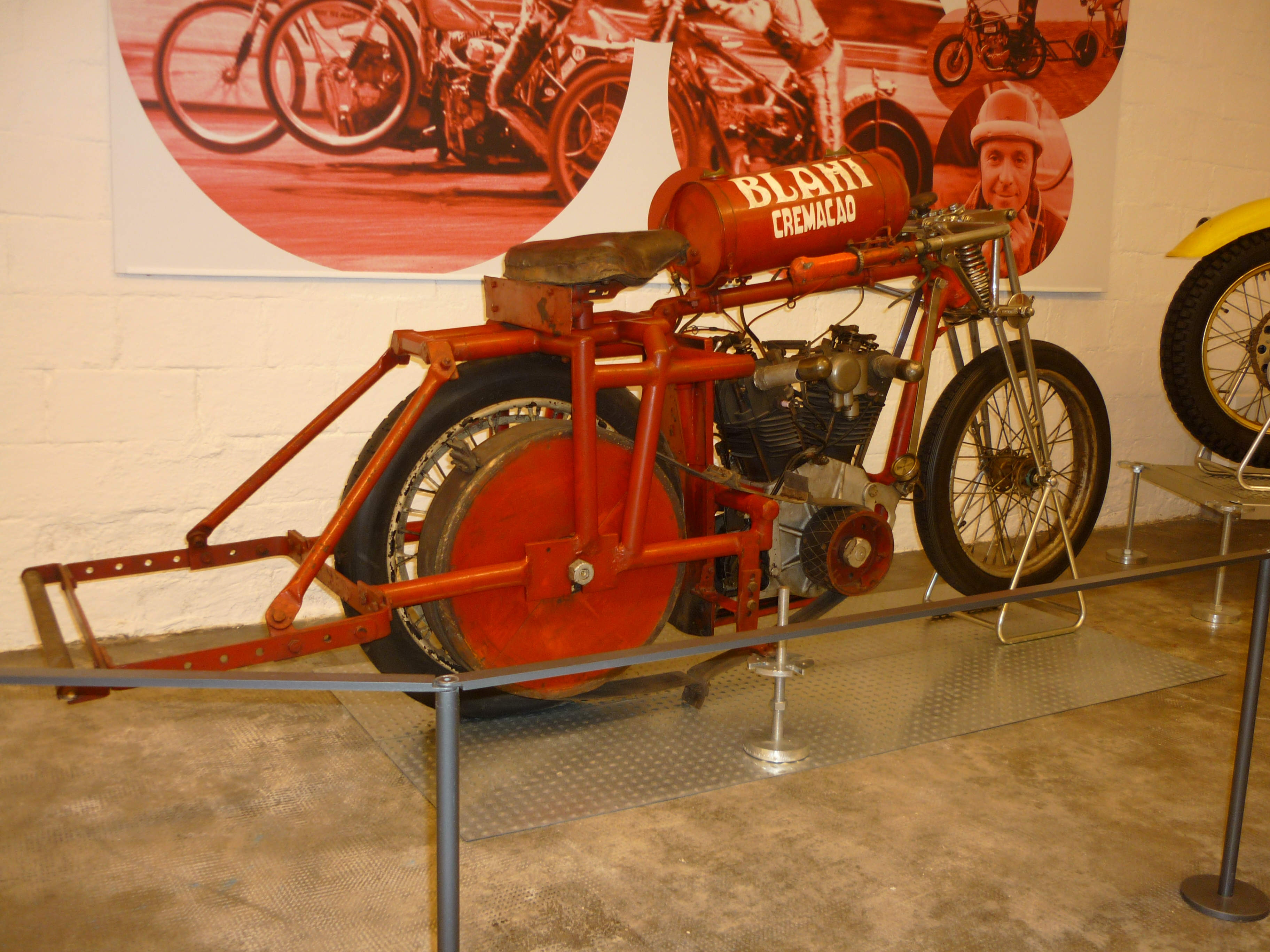 BAC (British Anzani Corporation) 2400cc, 1932. This unit was used for training by former Spain and World champion, Guillem Timoner